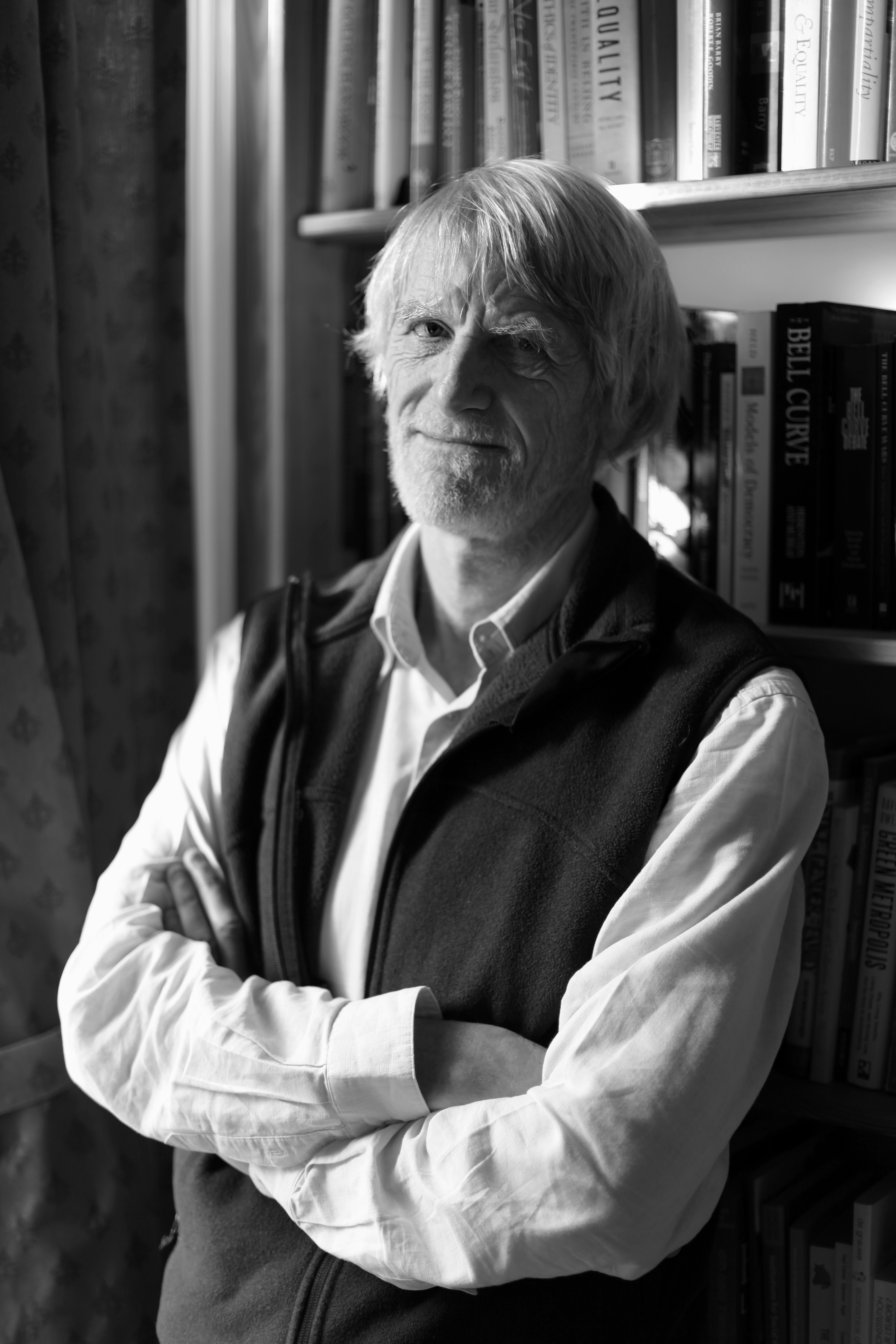 Philippe Van Parijs in his library.